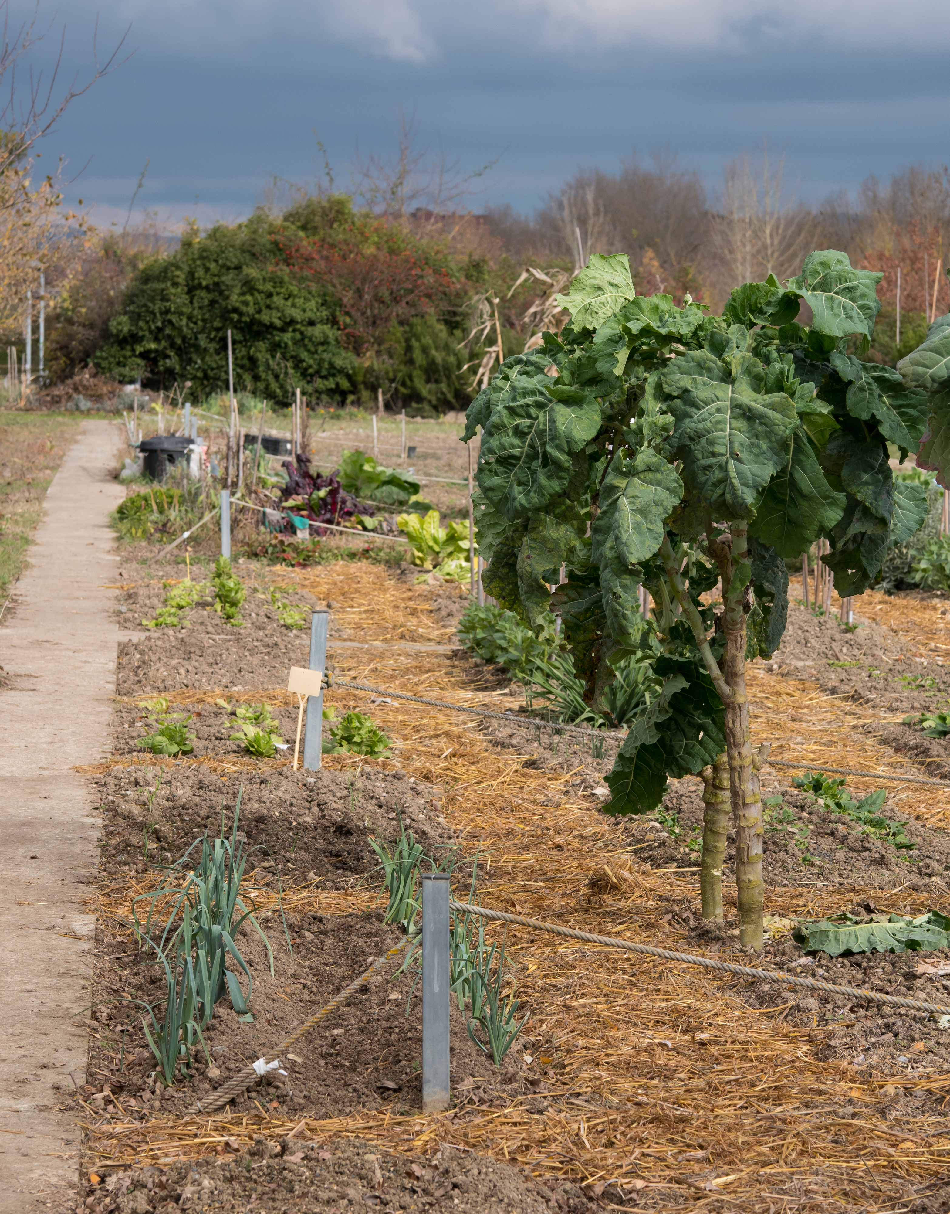 Collard greens (Brassica oleracea var. viridis) at the Olarizu allotments. Vitoria-Gasteiz, Basque Country, Spain